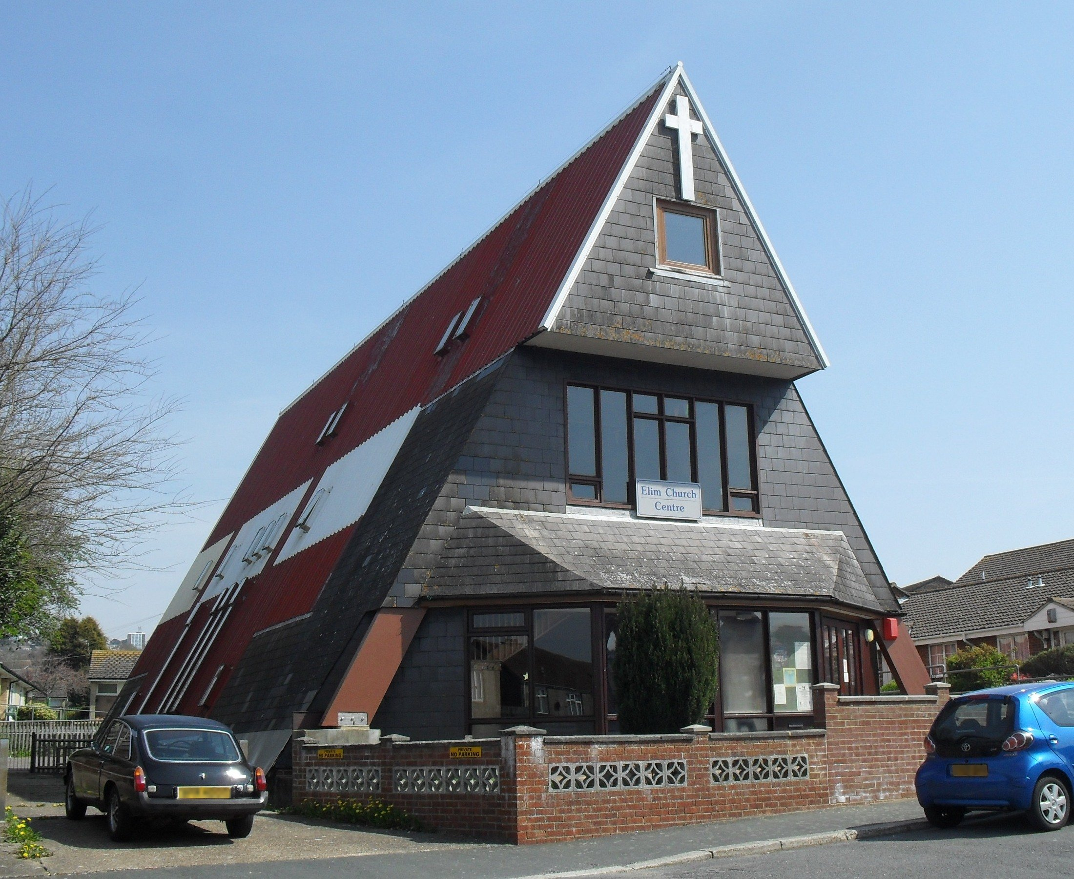 Elim Church Centre, Elphinstone Avenue, Hastings, East Sussex, seen from the southwest